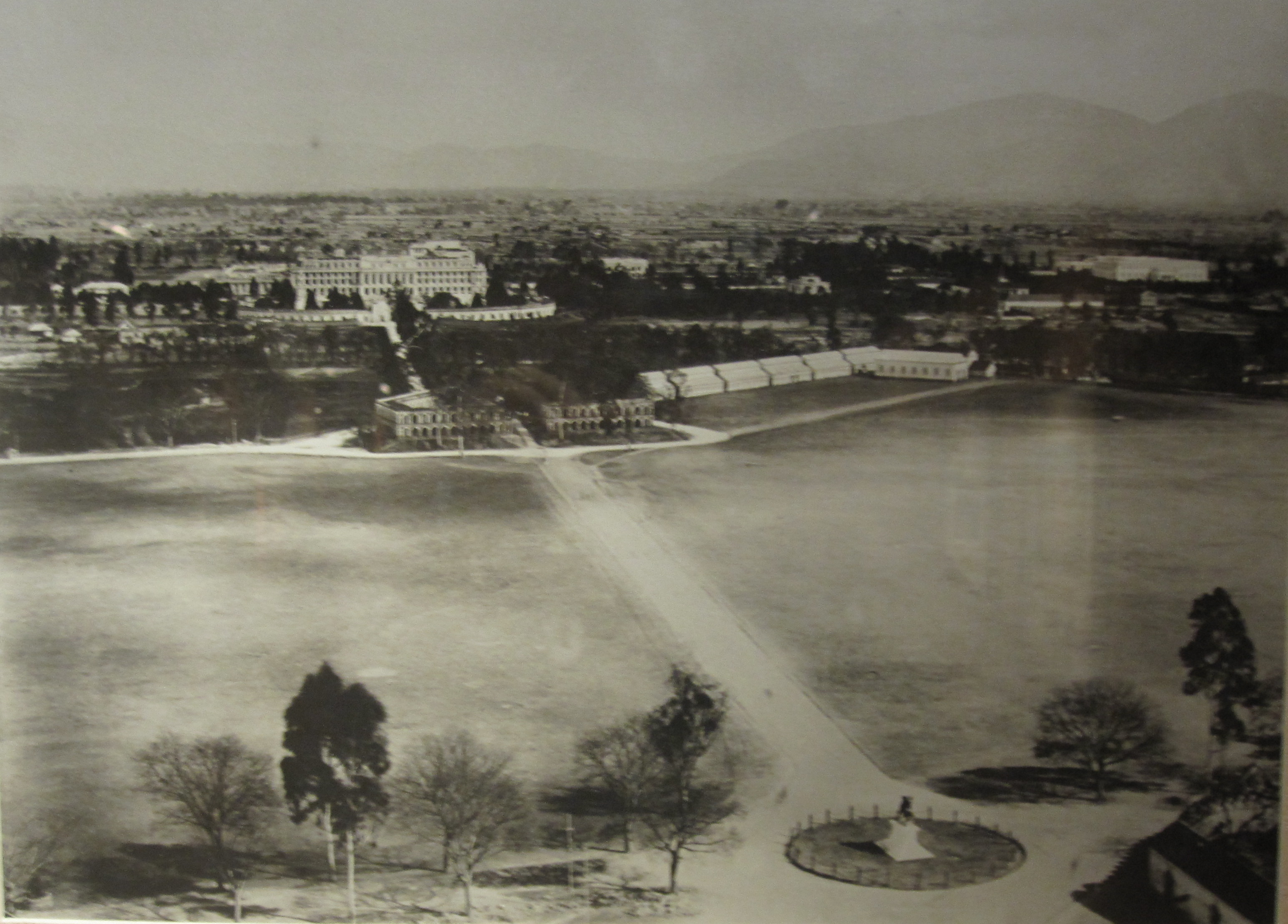 Areal shot of Tundikhel along with Singha durbar